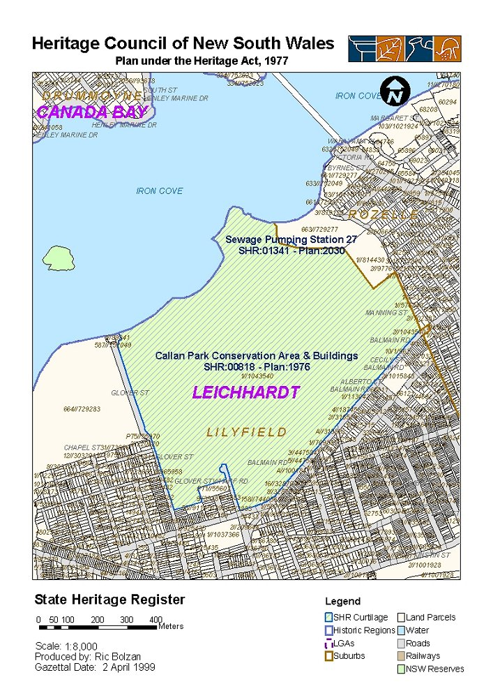 Callan Park Hospital for the Insane: SHR Plan 1976